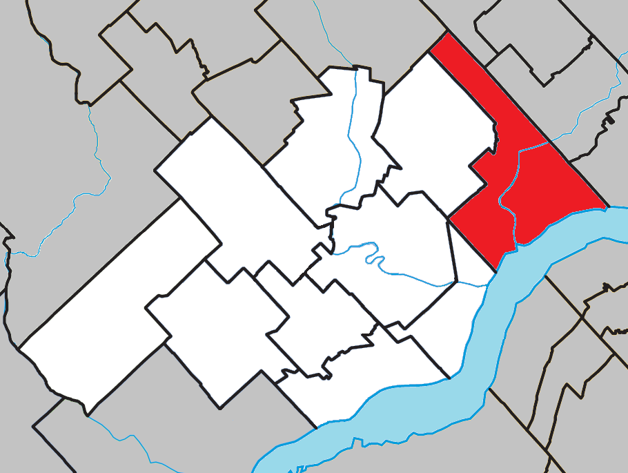 Location of Sainte-Anne-de-la-Pérade, Quebec within Les Chenaux Regional County Municipality.